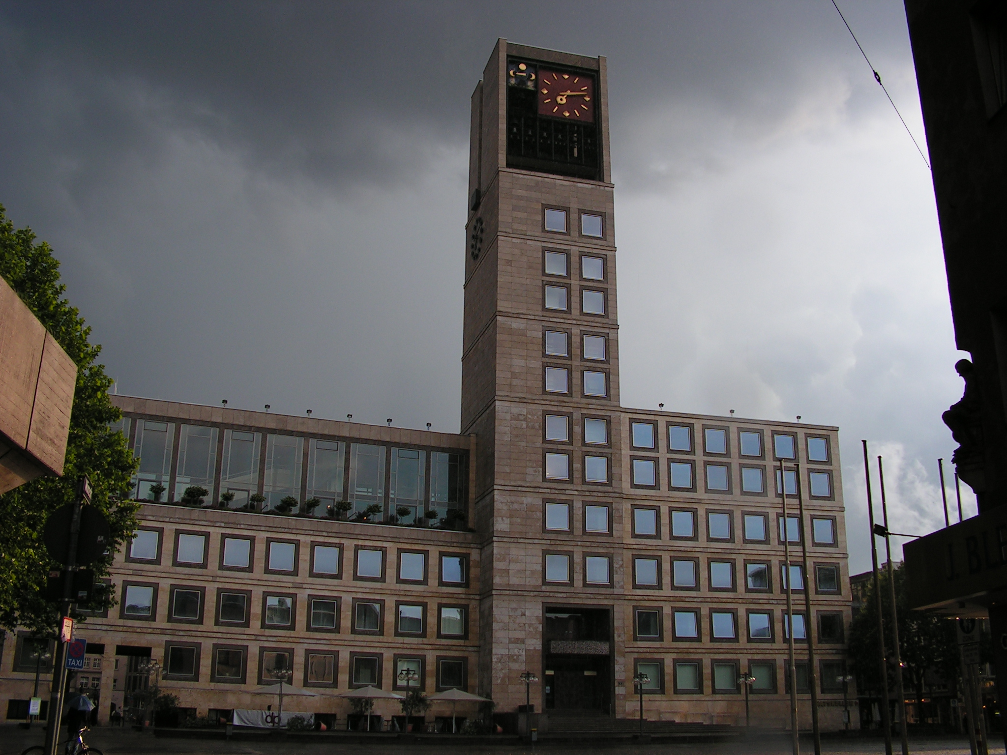 Stuttgart, the Rathaus/Town hall Author:Snowdog